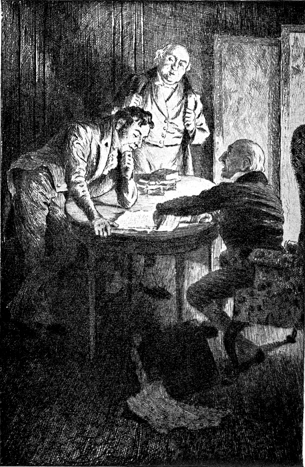 Illustration of Honoré de Balzac's A Historical Mystery (1841).